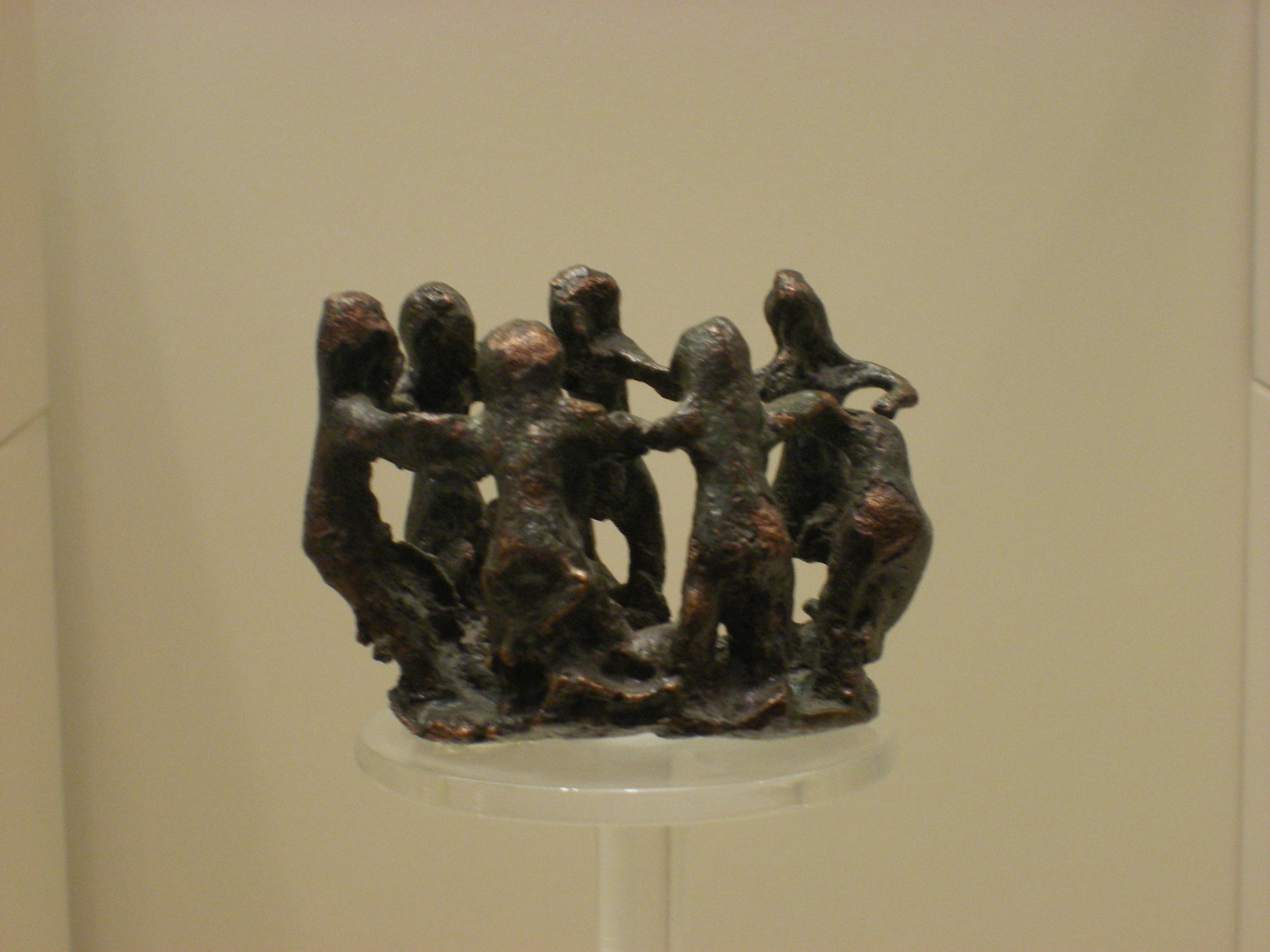 Seven naked women dancing (nymphs ?), bronze, 8th century BCE